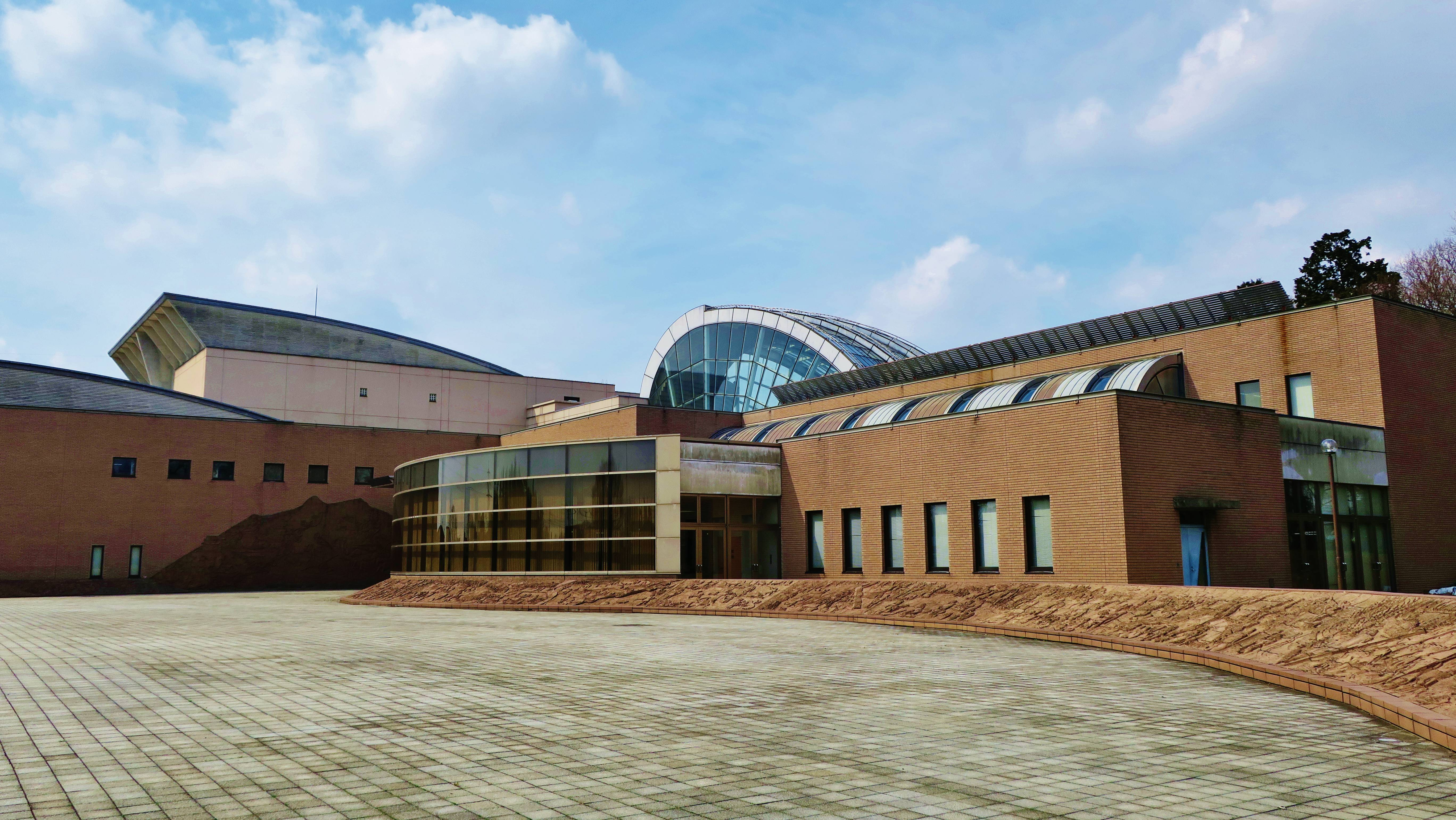 Bando Civic Concert Hall Belle Forêt.